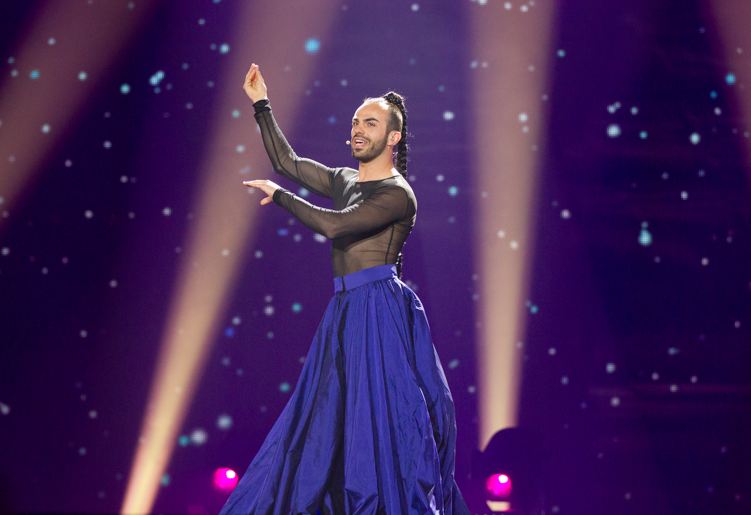 Slavko Kalezić representing Montenegro with the song "Space" during a rehearsal before the first semi final of the Eurovision Song Contest 2017 in Kiev.